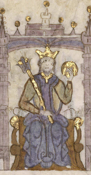 Garcia Sánchez II of Navarre